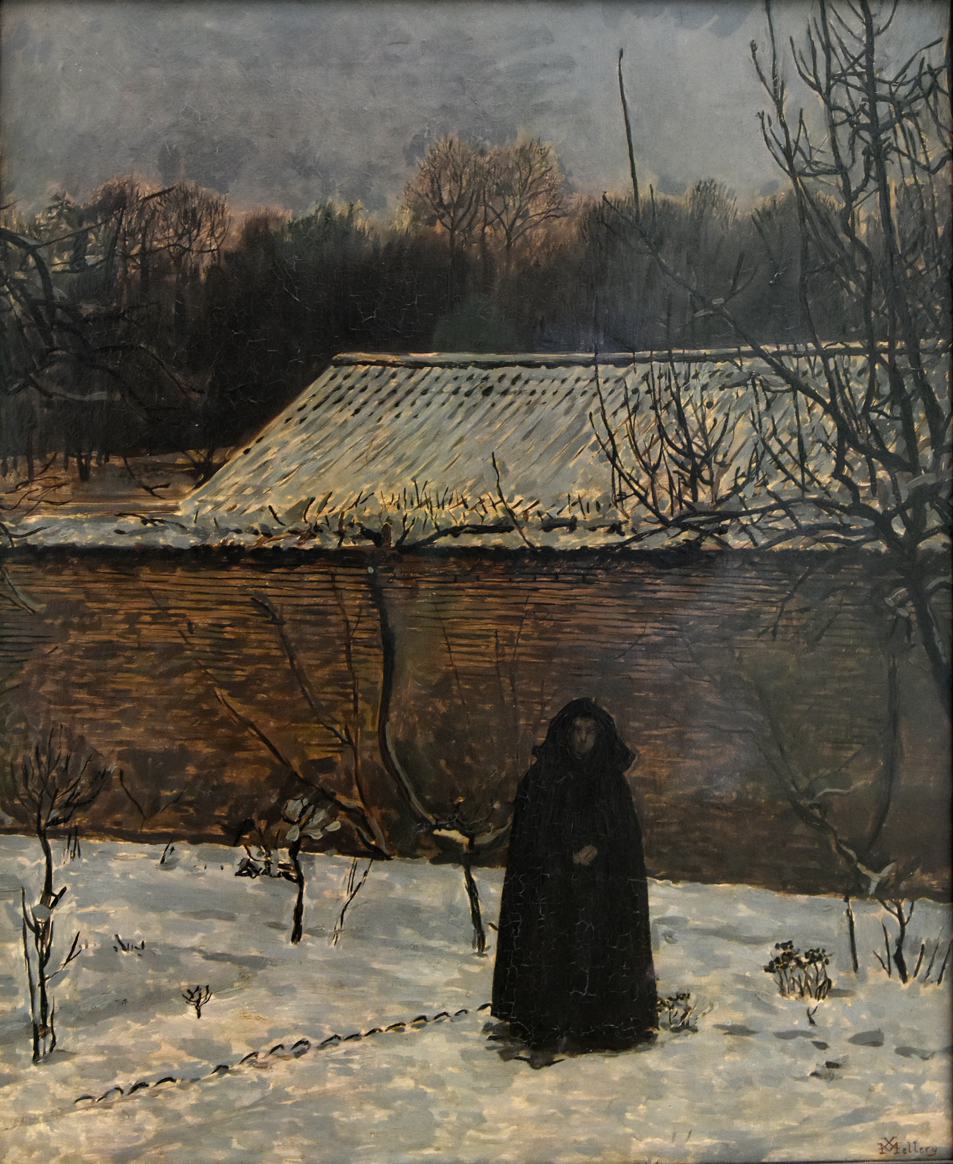 Xavier Mellery (1845-1921) Day in winter - Kröller-Müller Museum Otterlo